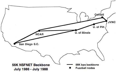 NSFNET 56K Backbone Map, July 1986 - July 1988 Source: Merit Network, Inc.